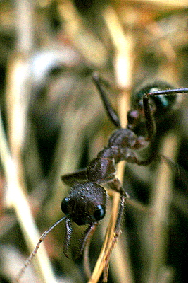 Inchman ("Myrmecia forficata"). Photograph by Jim Palfreyman.